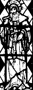 Drawing of the 1914 Window depicting Ia of Cornwall in St Olafs' church Poughill Cornwall